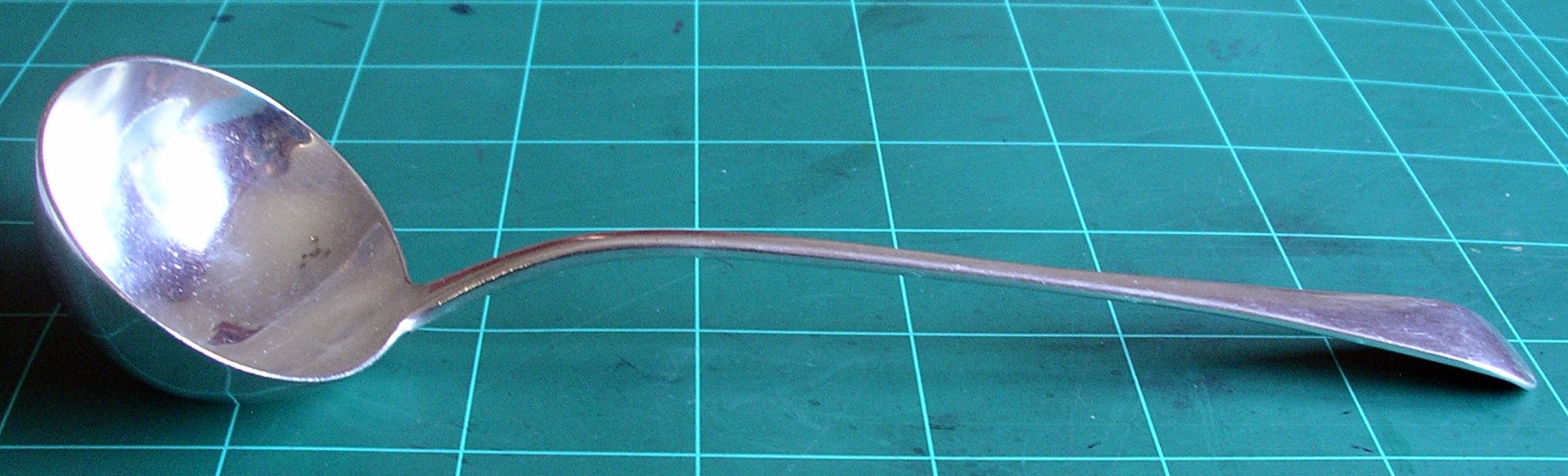 A Victorian ladle made of stirling silver. It has a London hallmark, date stamp 1876-77, and makers initials FH. It weighs 9.3 ounces (approx). The green board is marked with 5cm squares.